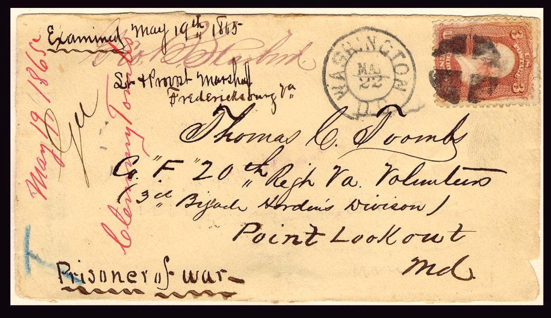 Letter/Cover to Prisoner of War